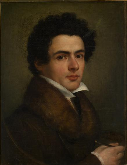 "Self-portrait" (1828), by António Manuel da Fonseca. Currently in the reserve of the Museu Nacional de Arte Antiga, Lisboa, Portugal.